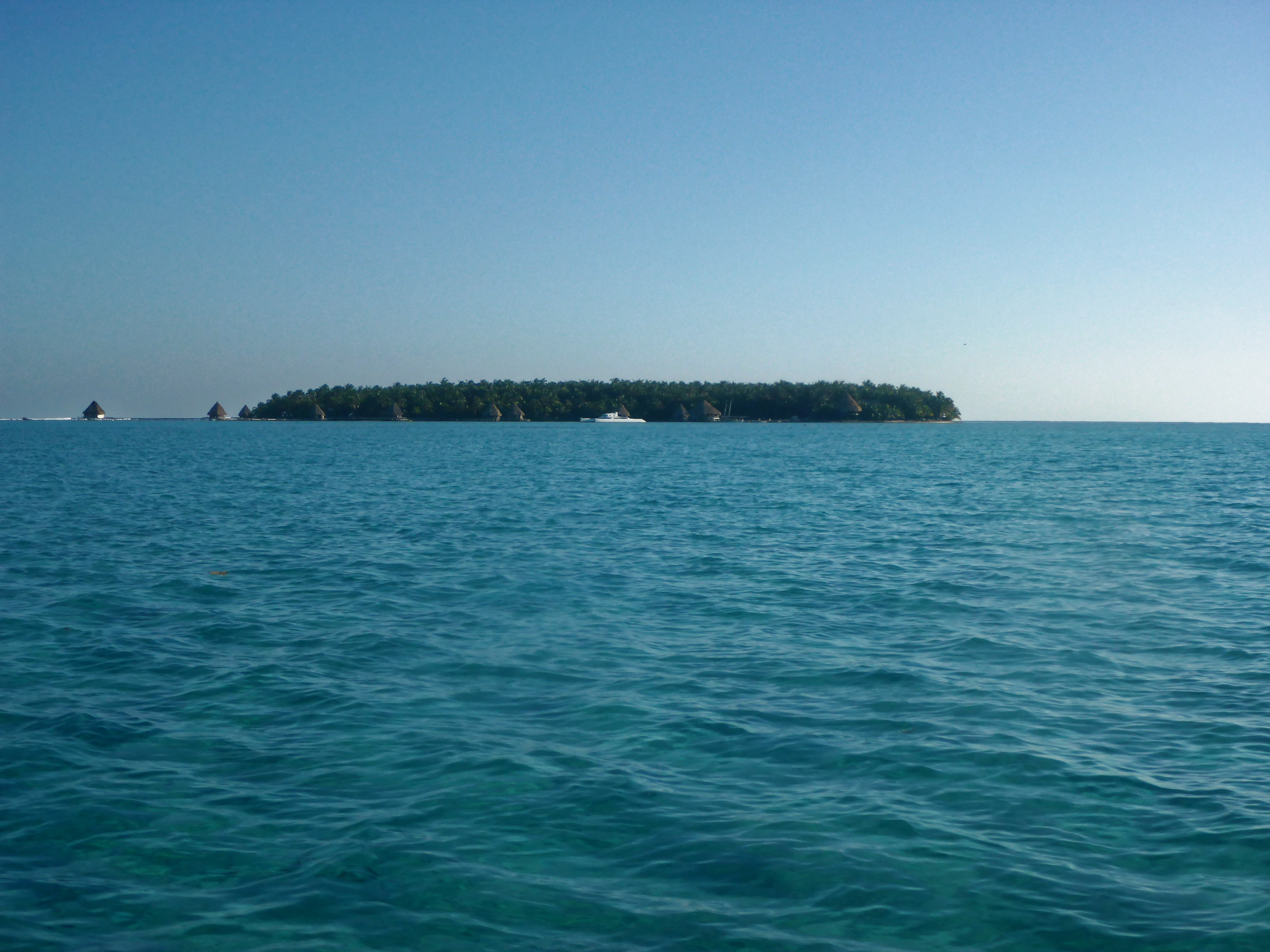 Glover's Reef 2-14 afternoon